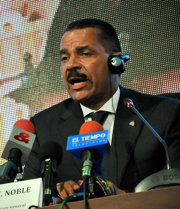 Interpol secretary-general Ronald Noble at the 82nd General Assembly of the Interpol in Cartagena, Colombia on 21 October 2013.